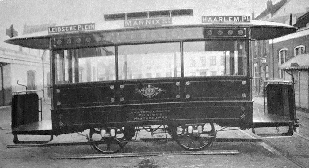 JJ Beijnes carriage factory in operation for 125 years from 1838-1963 that serviced horse carriage owners, trams, trains and busses, Stationsplein, Haarlem, Netherlands. Today all that remains is a sports hall and parking garage with the name Beijnes.